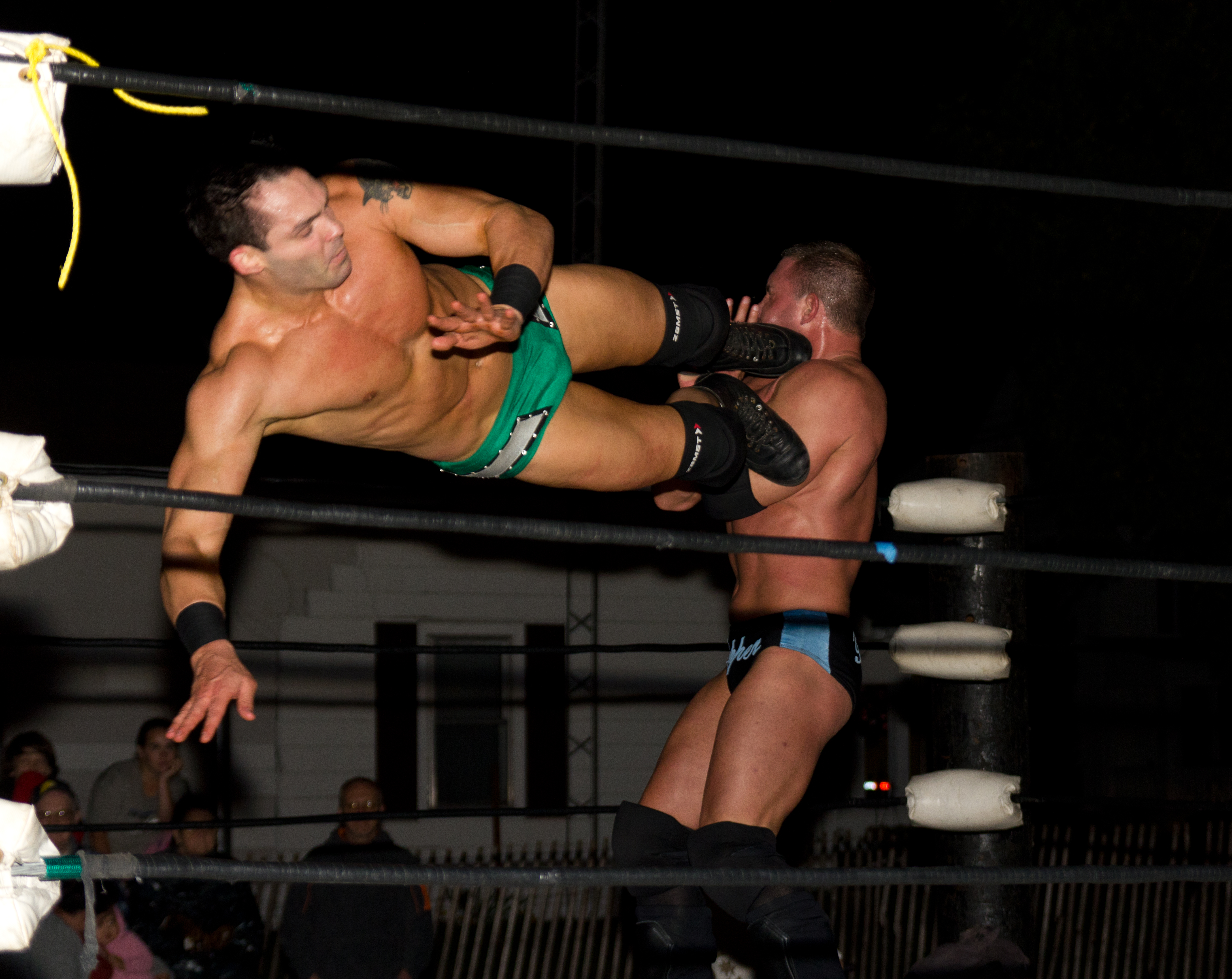 Shawn Spears executes a standing dropkick on Pepper Parks, GCW, 16th September 2011